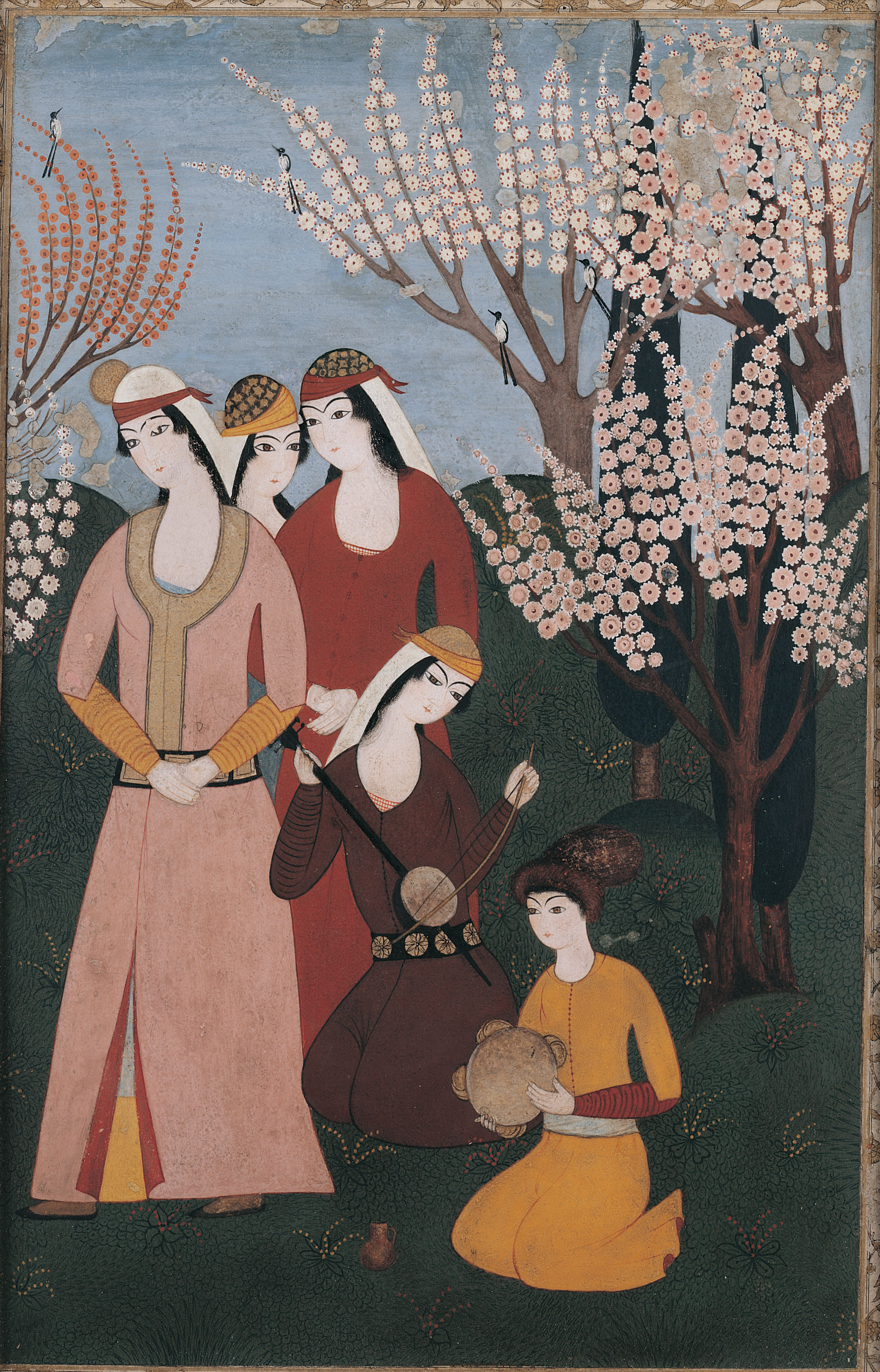 Three women stand next to the musicians, dressed in peach- and crimson-coloured robes, while a fourth sits on her knees to play the ektar, a one-stringed lute. Meanwhile, a young boy sits to the left of the lute player and taps his tambourine to the music.